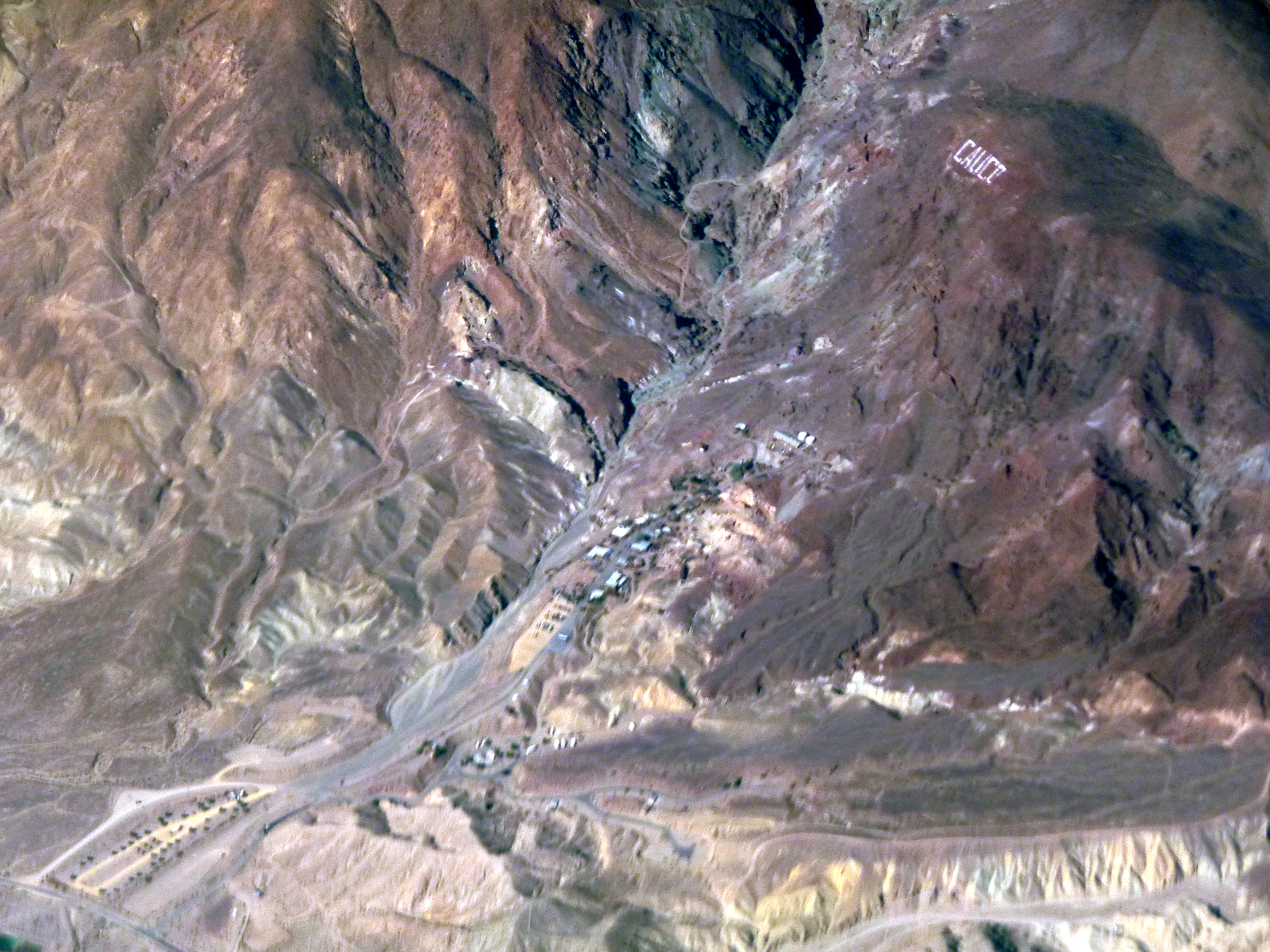 Aerial of Calico Ghost Town and Calico, Mojave Desert - California, USA.